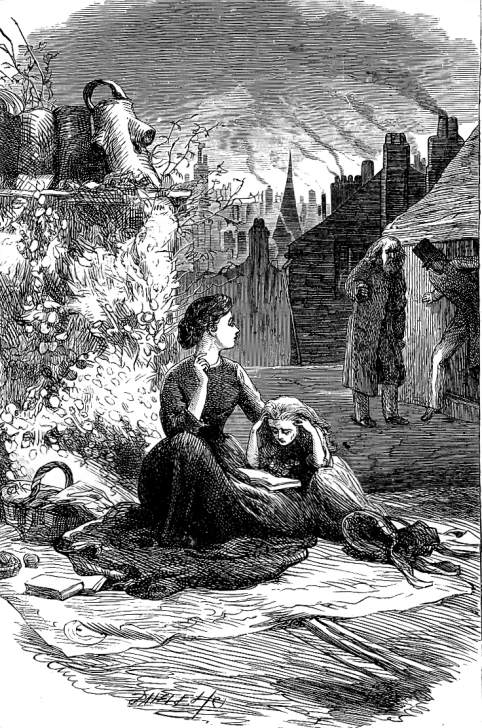 Fledgeby's front-man, conducts his employer onto the roof of the building, where Jenny Wren and Lizzie Hexam are reading